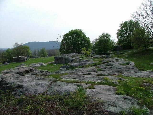 Stone ridge at Kővágóörs